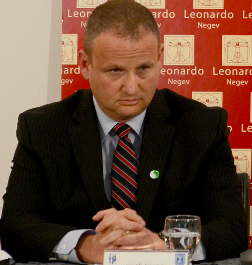 Prime Minister Benjamin Netanyahu (third from left) moderates during the Forum of Directors General with Director General of the Prime Minister's Office Harel Locker (second from right), Deputy Director General of the Prime Minister's Office Yossi Katribas (far left), Director General of the Ministry of Defense Dan Harel (third from right), Director General of the Ministry of Finance Yael Andoran (far right) and Be'er Sheva Mayor Ruvik Danilovich (second from right), Be'er Sheva.